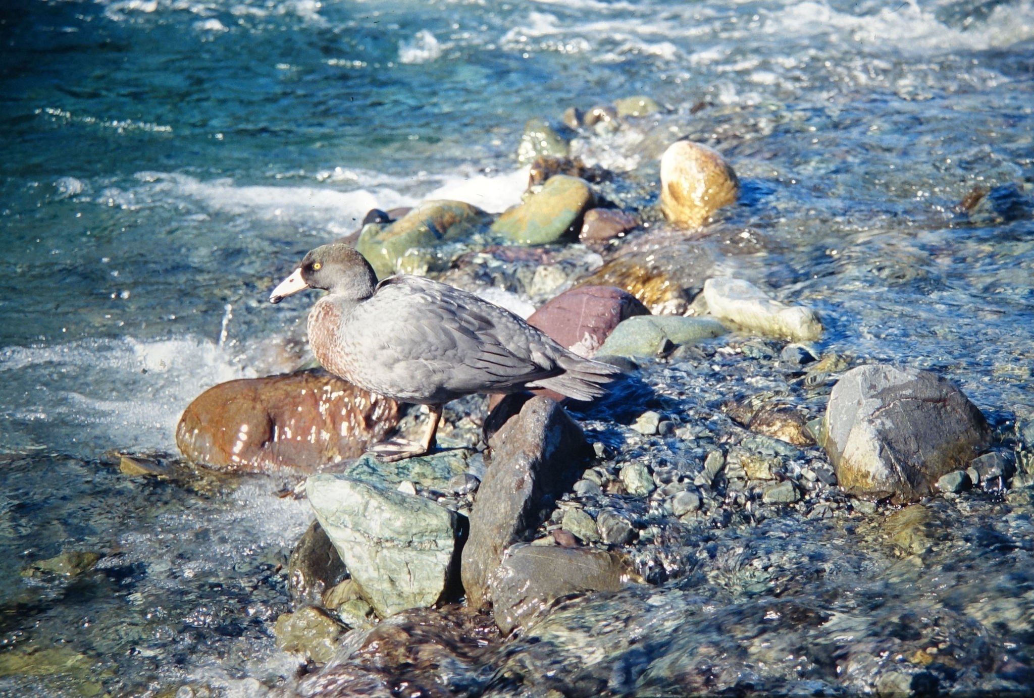 Blue Duck (Hymenolaimus malacorhynchos)